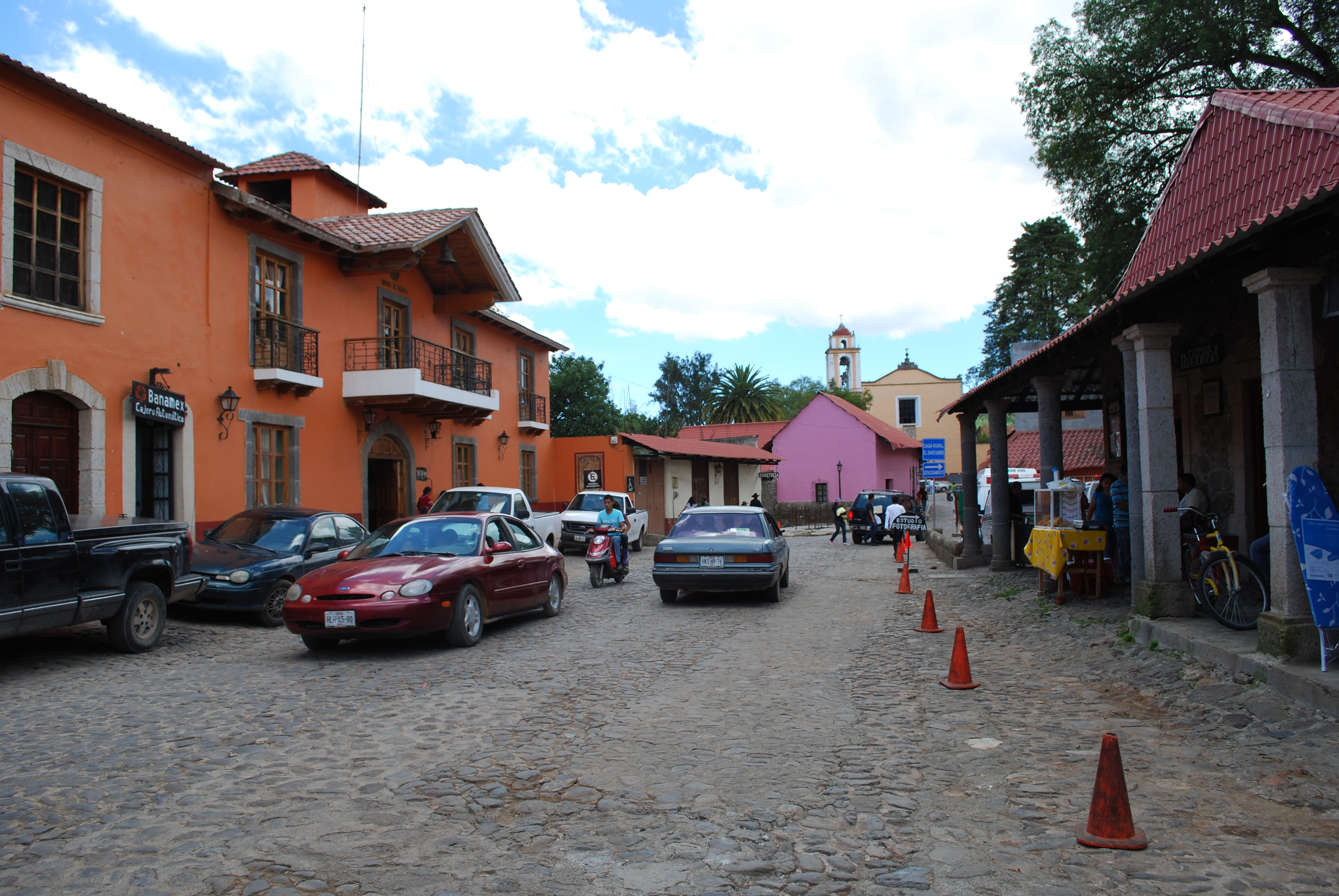 Looking towards the main church of Huasca de Ocampo, Hidalgo, Mexico